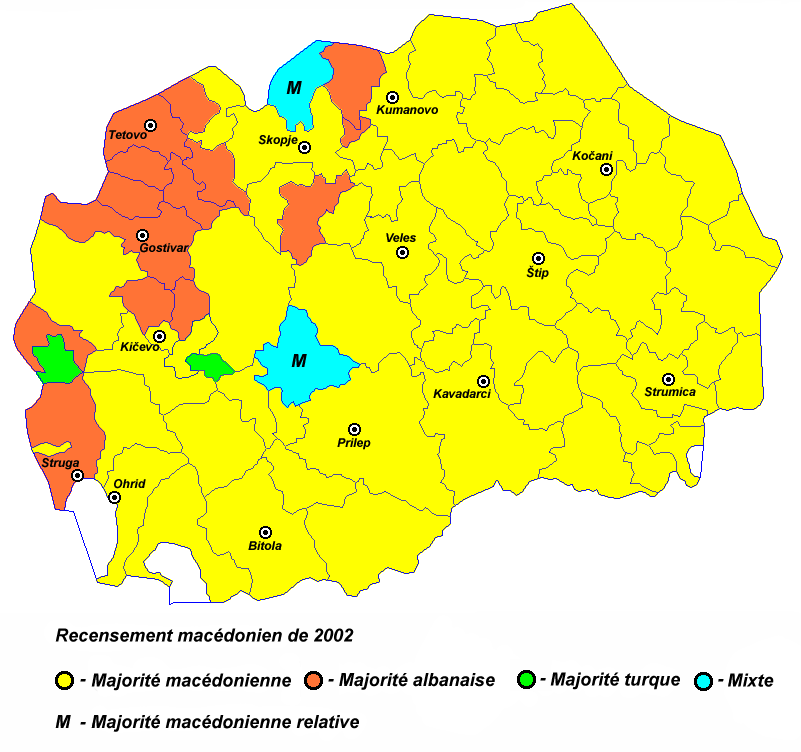 Ethnic map of the Republic of Macedonia